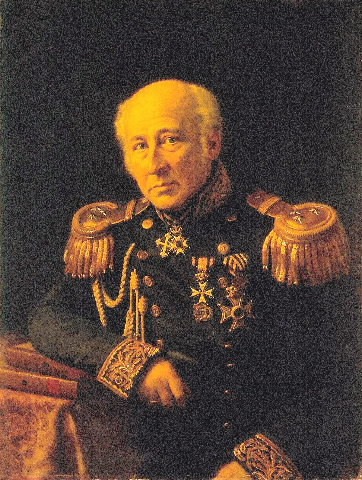 J.F.D. Bouricius